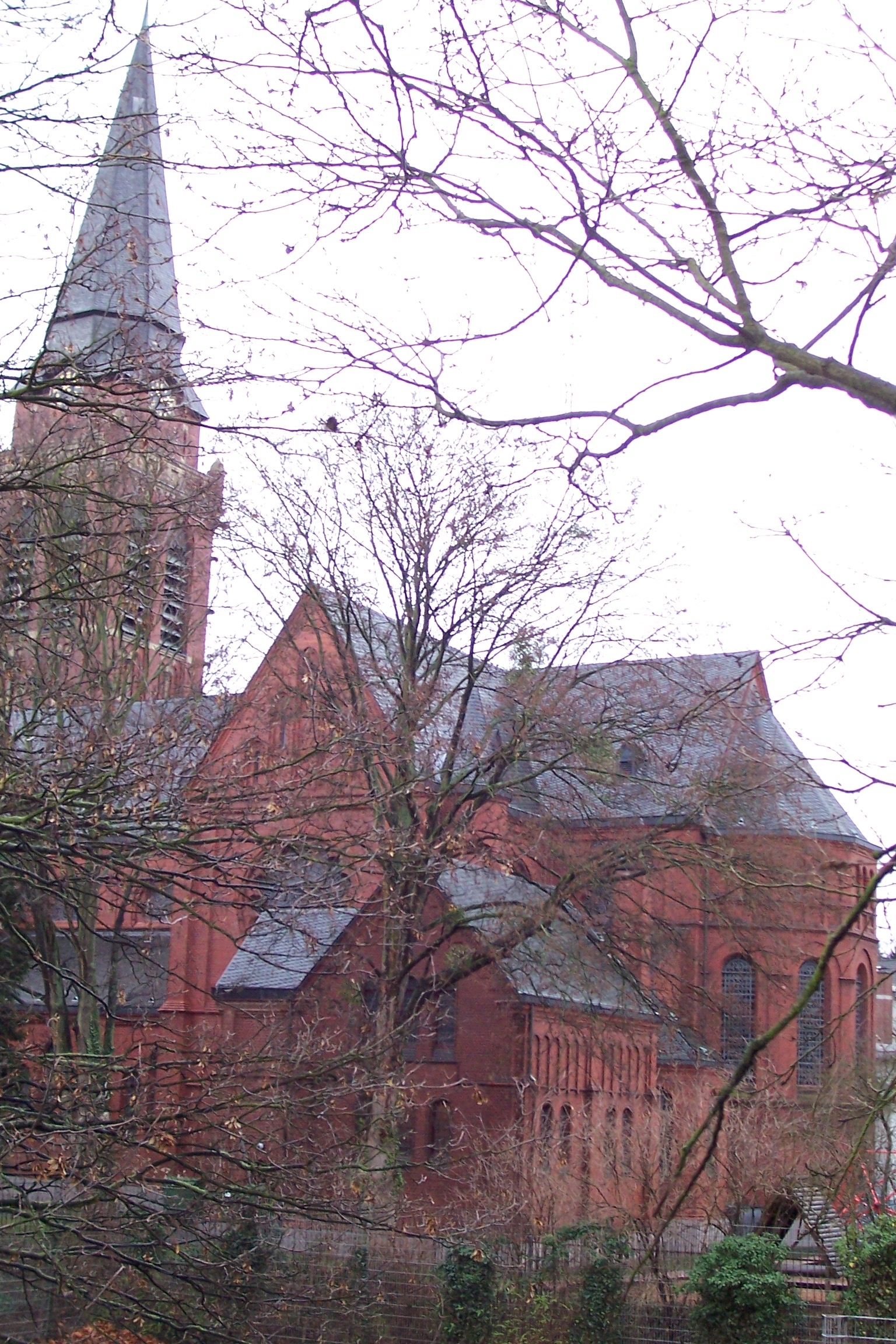 St. Sebastian (Bonn-Poppelsdorf): northern aspect